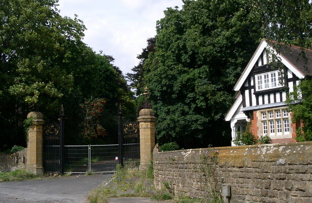 Original entrance and lodge to Wood Norton Hopefully the splendid gates are simply away for repair , this was a very grand house in its day now a hotel and the BBC training school.